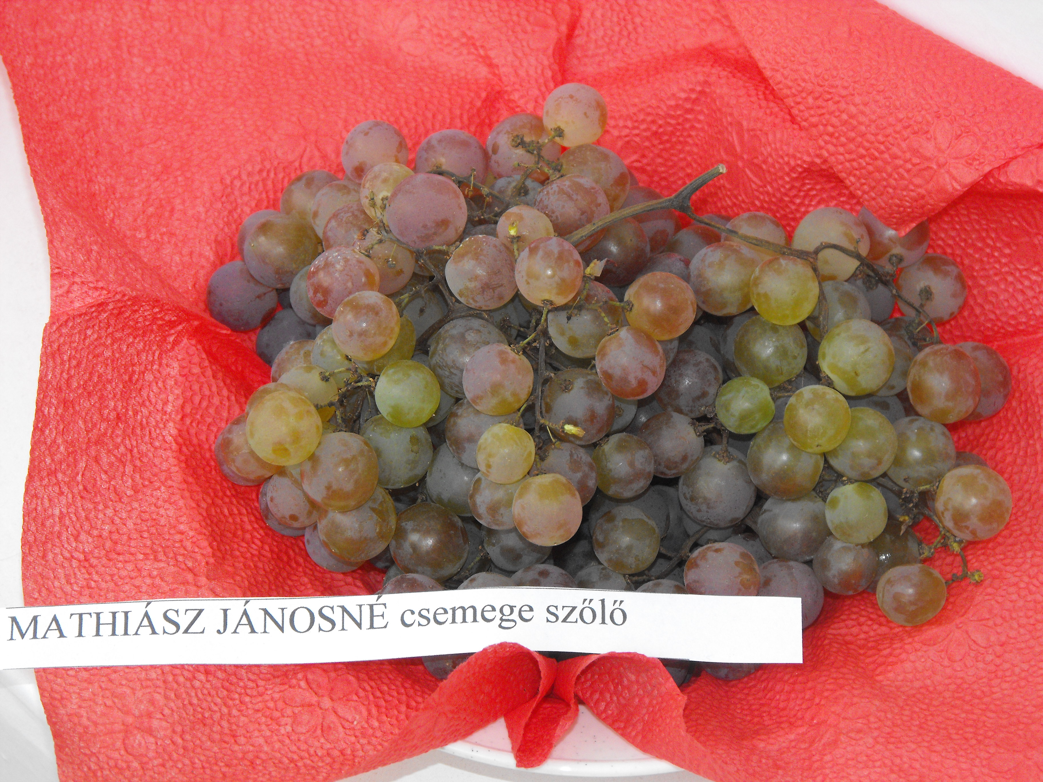 Mathiász Jánosné grape, mixture of Muscat Ottonel and Chasselas Rouge de Foncé in an exhibition, International Onion Festival 2009, Makó, Hungary.